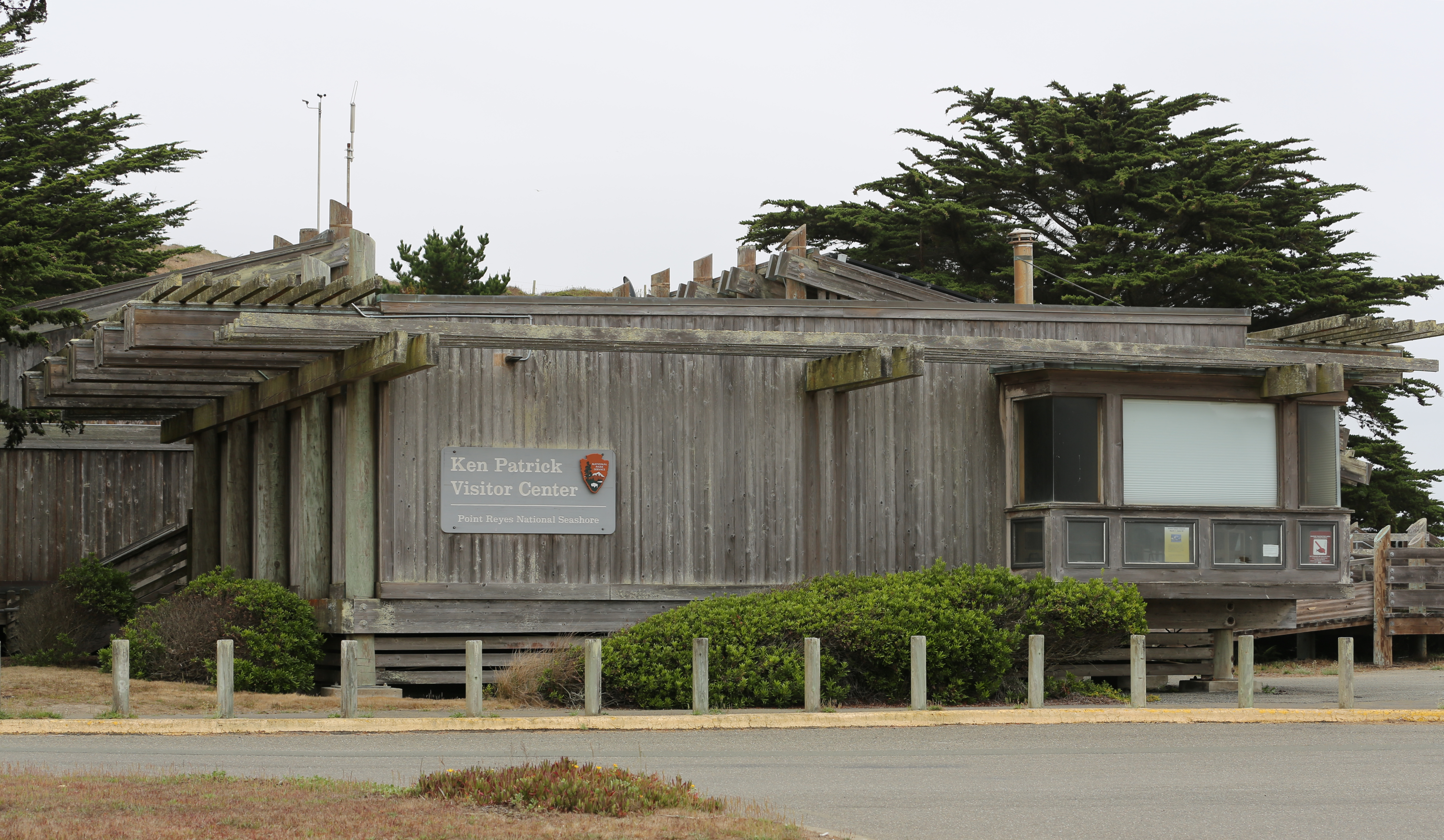 Point Reyes National Seashore; Ken Patrick Visitor Center at Point Reyes